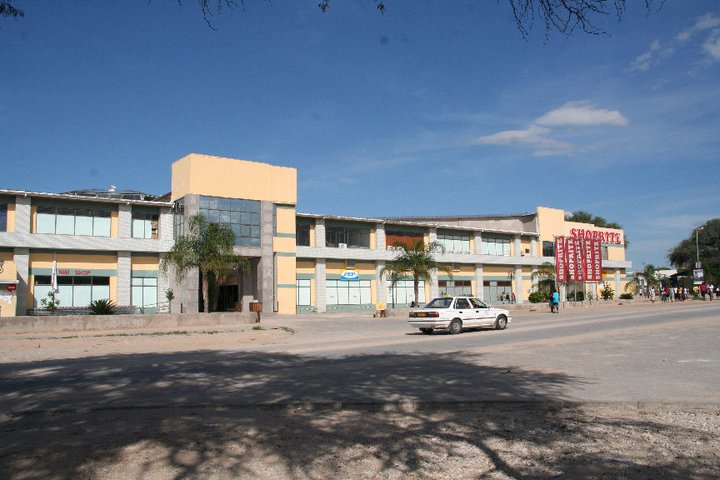 Shopping Mall at Eugene Kakakuru St, Galaxy Shopping Center